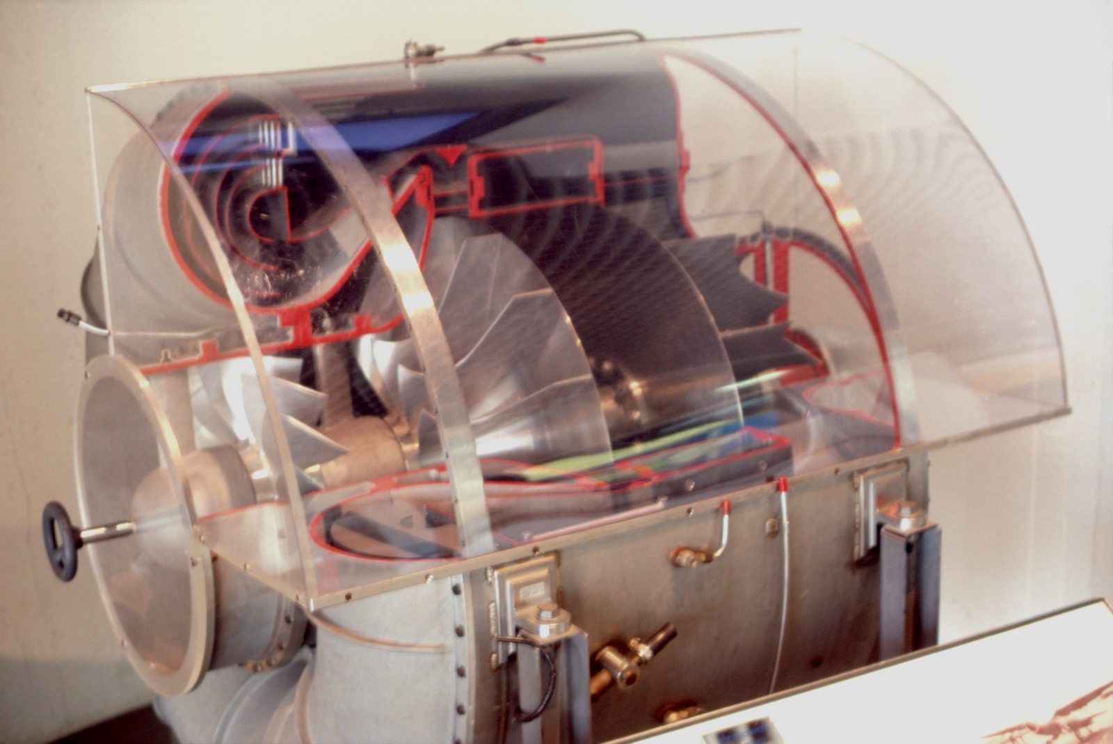 Replik of the Heinkel HeS 3 turbojet engine by Hans von Ohain for the He 178 aircraft.